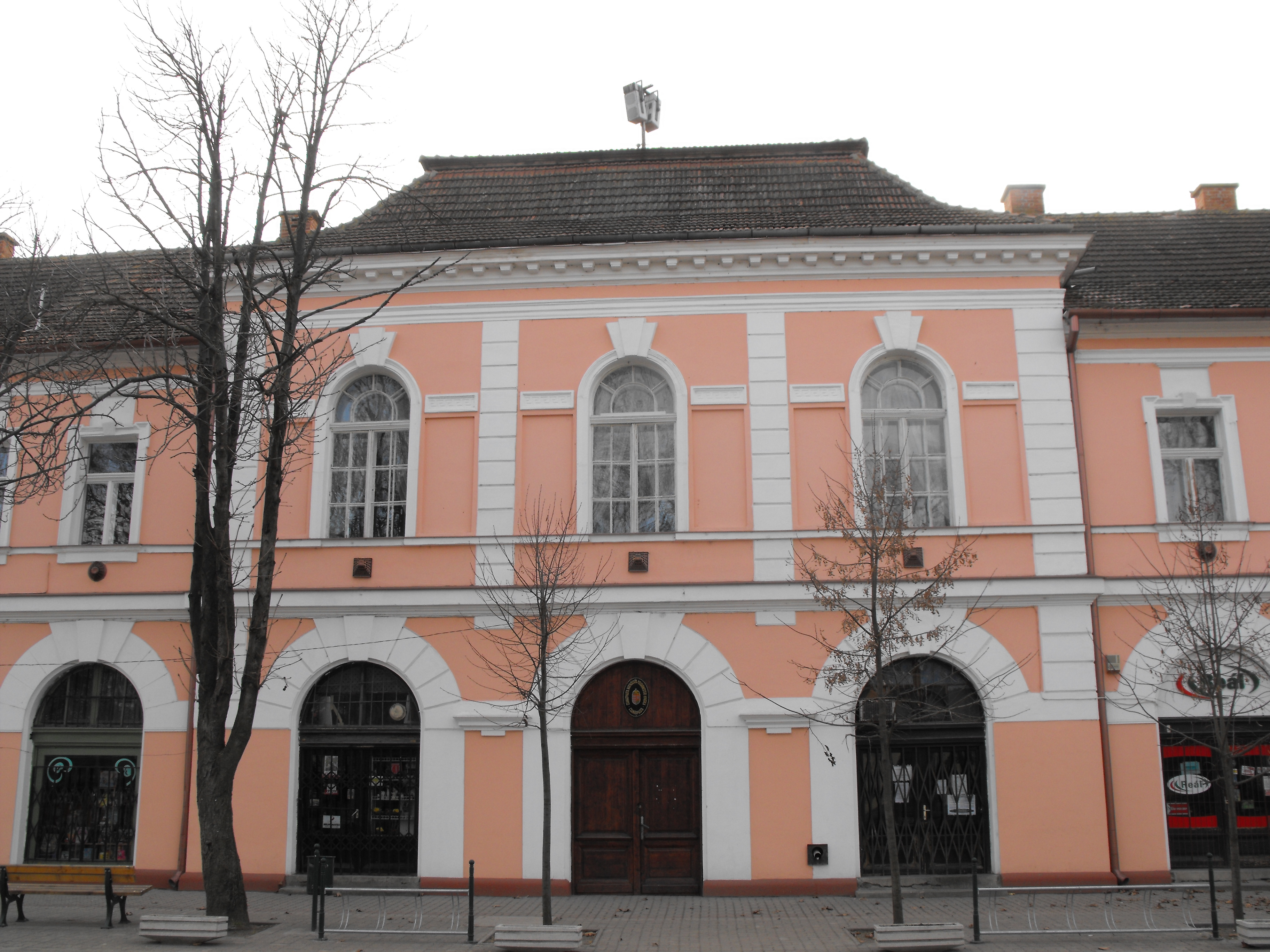 The Village Hall in Csanádpalota, Hungary.